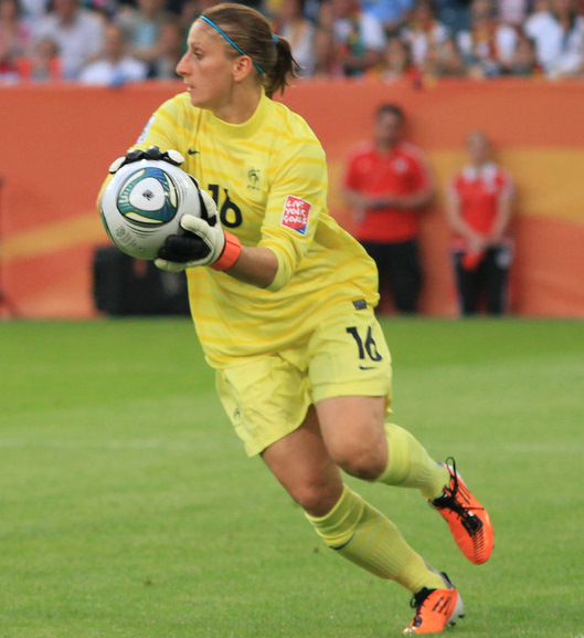 Berangere Sa[pwicz playing for France in the 2011 FIFA Women's World Cup